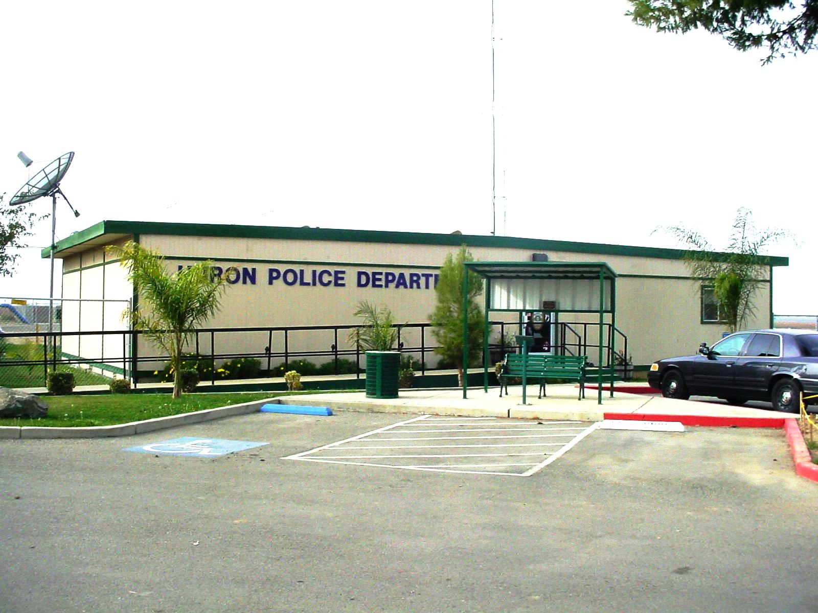 View of the police department looking west. The John Palacios Memorial Bench and Plaque are in the foreground.